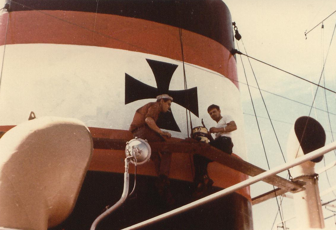 Sailors work - funnel markings of DDG Hansa - freshly painted - 1957